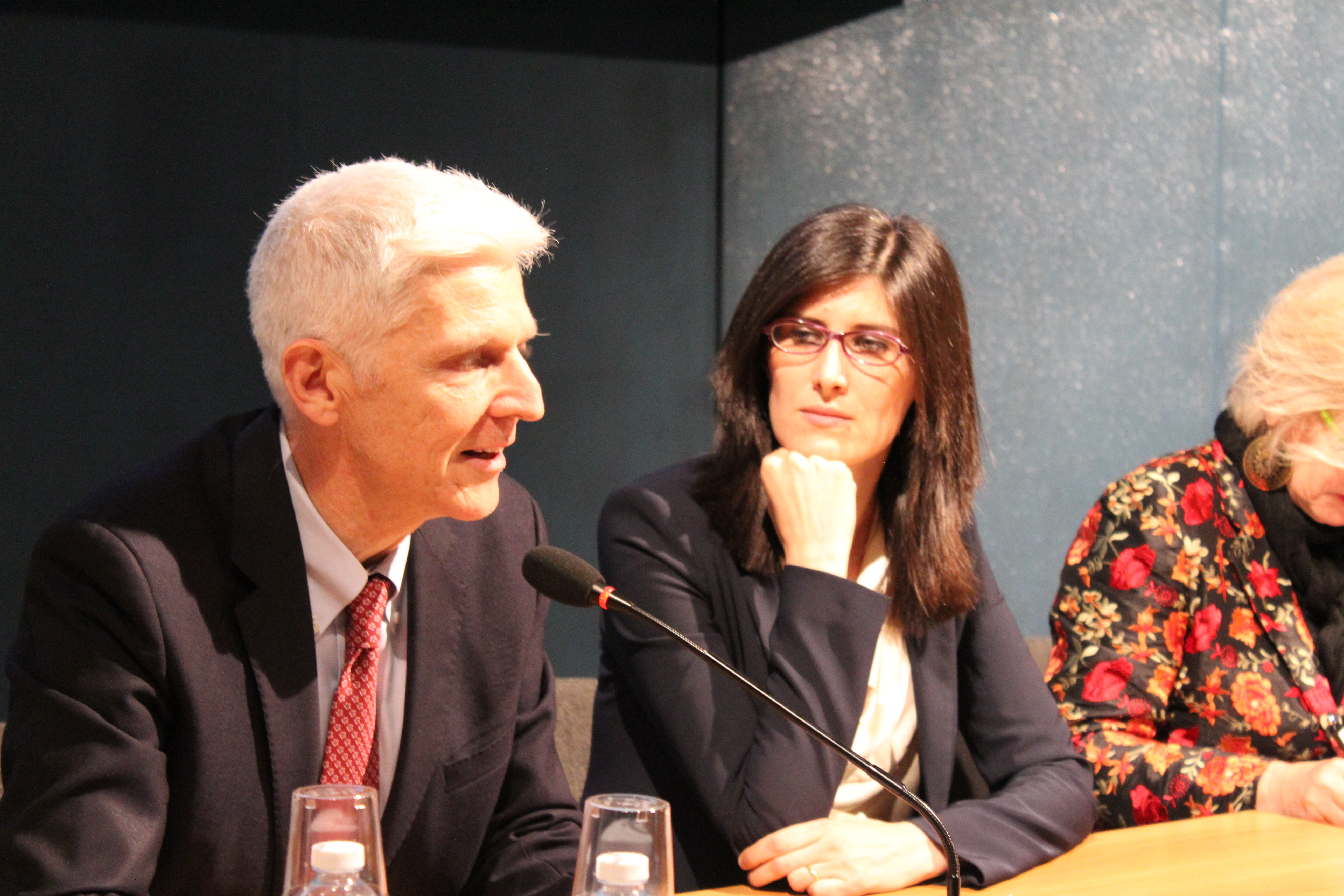 Massimo Bray (president) and Chiara Appendino (mayor of Turin) during Turin International Book Fair's closing press conference